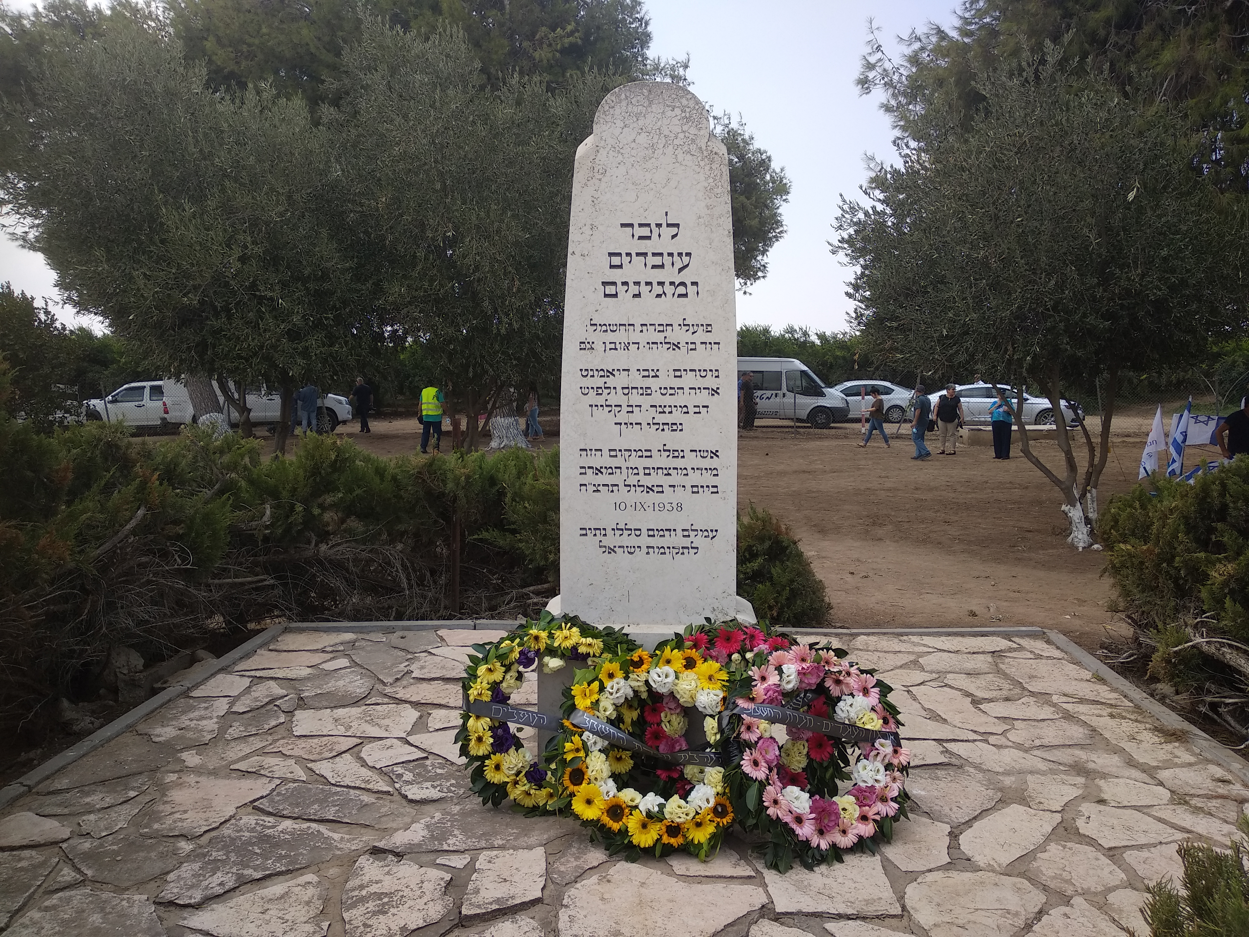 Monument In memorial of 2 electricity workers and 6 jewish policemen killed in Masmiyya Battle in September 1938